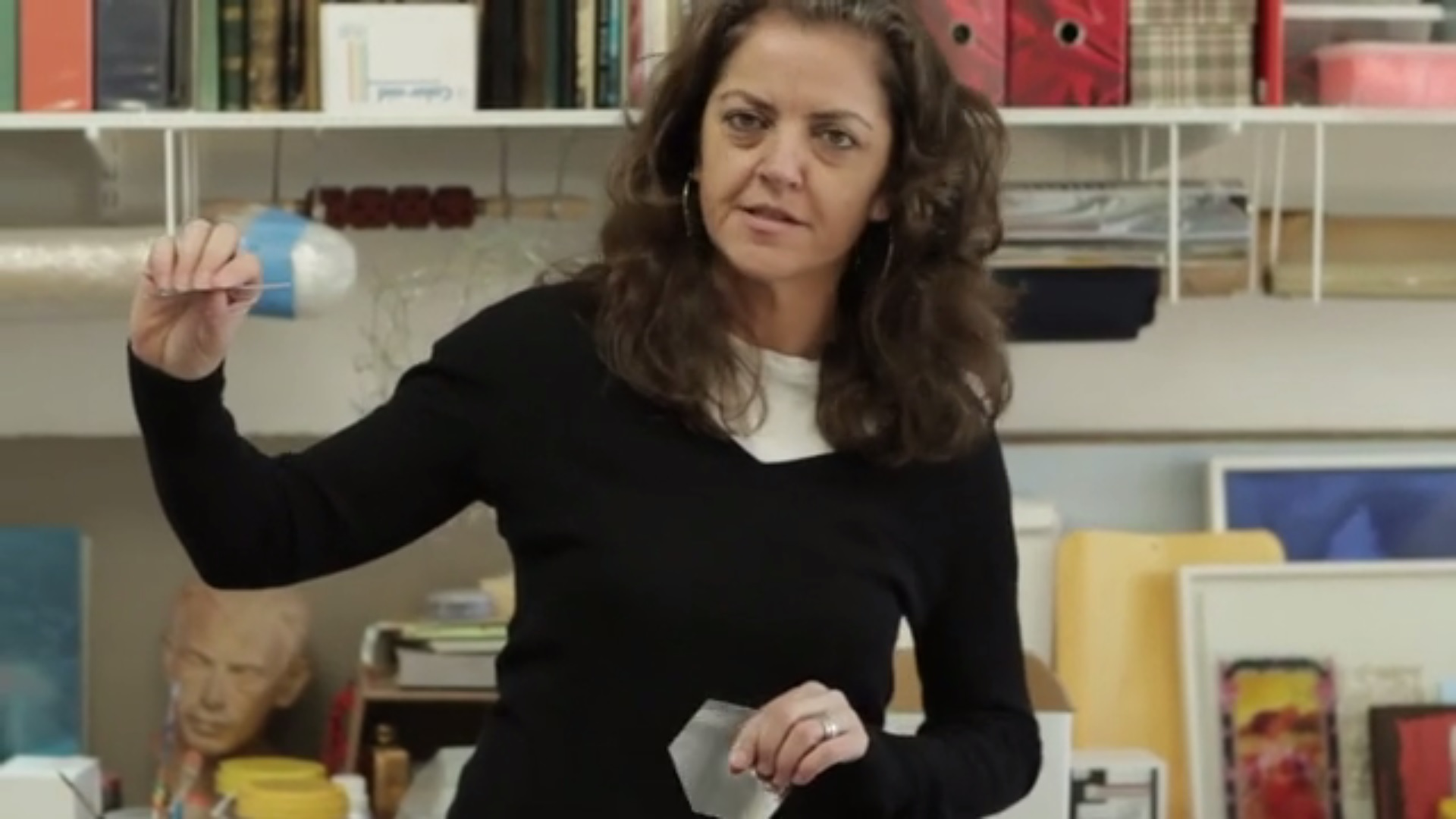 American visual artist Pae White in her studio, from W magazine series on Los Angeles artists.